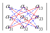 Sarrus rule of triangles for solving determinants